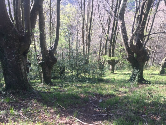 Iribeiti's wood of pollarded beeches